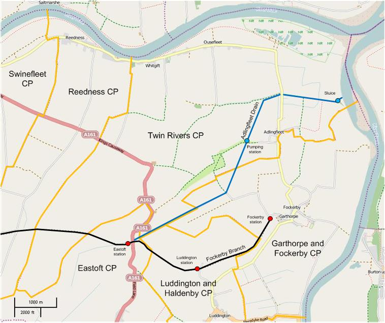 Map of Twin Rivers Civil Parish including Adlingfleet, Ousefleet and Whitgift, with overlays showing civil parish boundaries, Axholme Joint Railway Fockerby Branch and Adlingfleet Drain